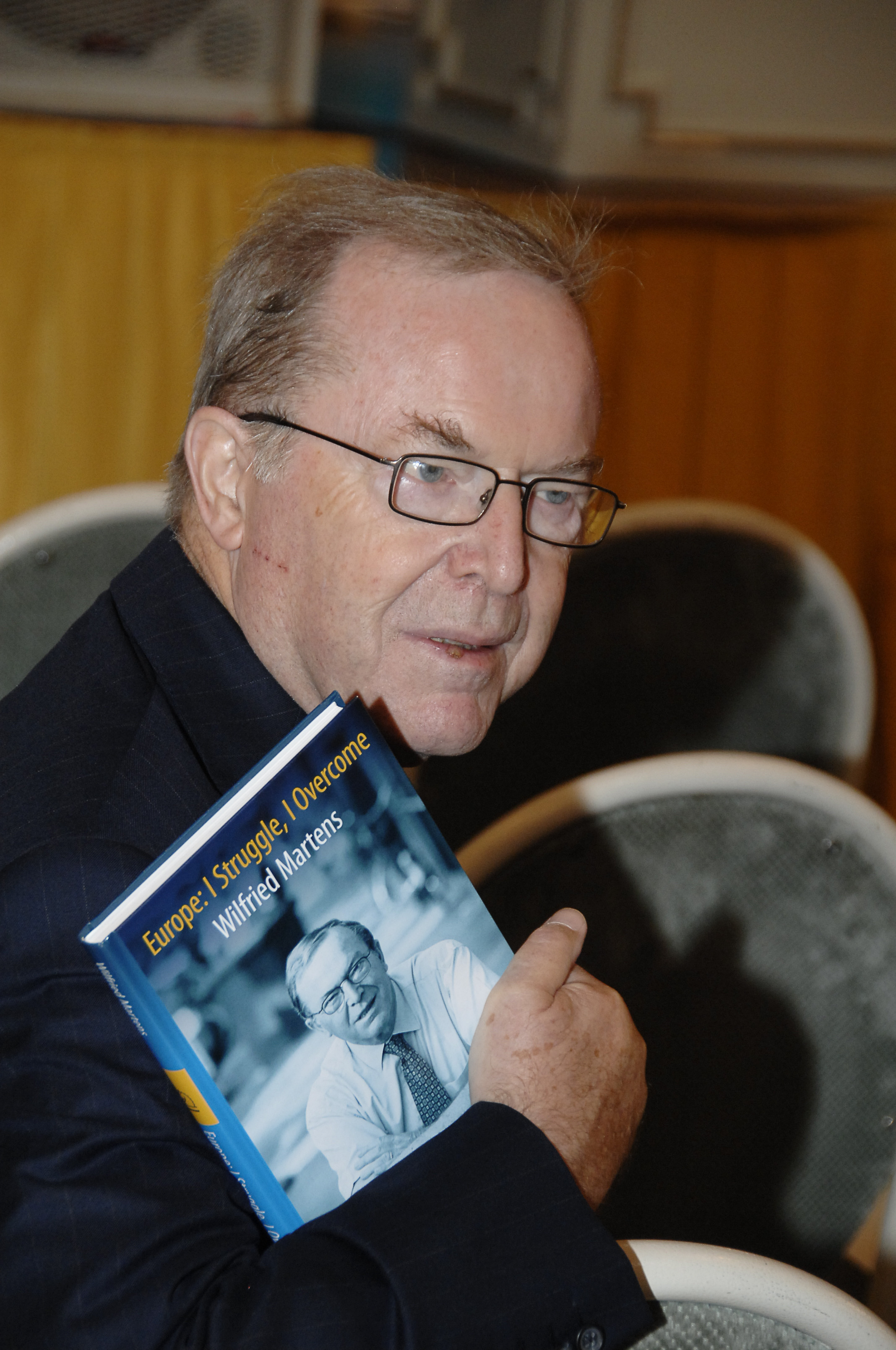 "I Struggle, I Overcome" - book launch